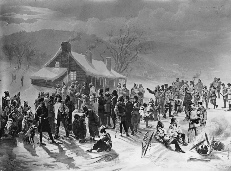 Composite photograph, Montreal Snow Shoe Club on Mount Royal, Montreal, Quebec, Canada, 1872. Silver salts on film - Gelatin silver process.